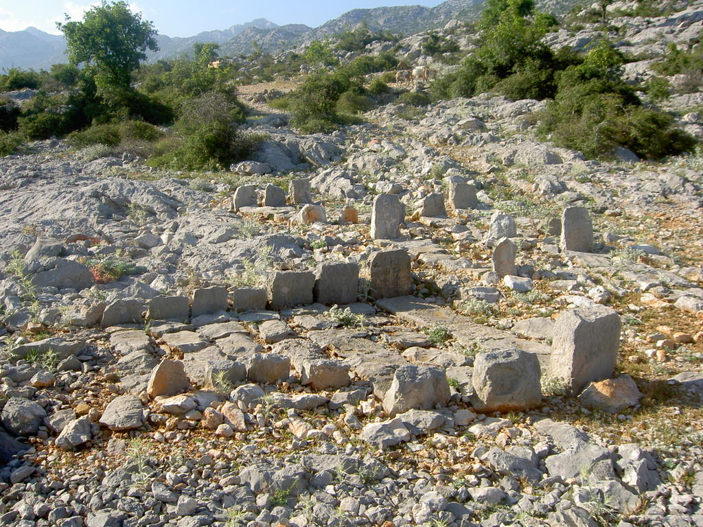 Mirila above Tribanj Kruščica at the Adriatic Highway near Starigrad in the Velebit mountain range in Croatia / Balkans / southeastern Europe.